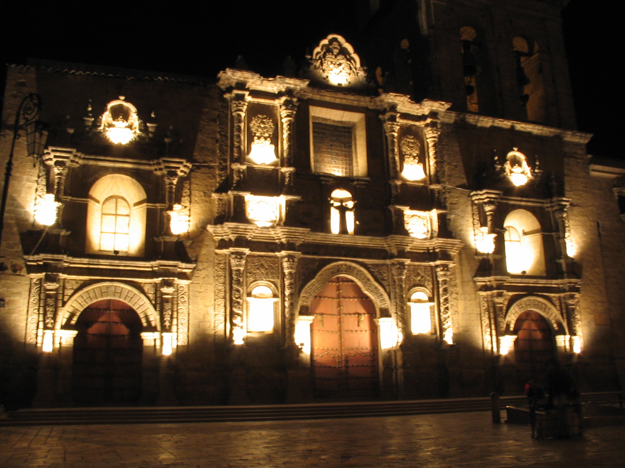 San Francisco by night, La Paz Bolivia Photo's Author : User:Anakin